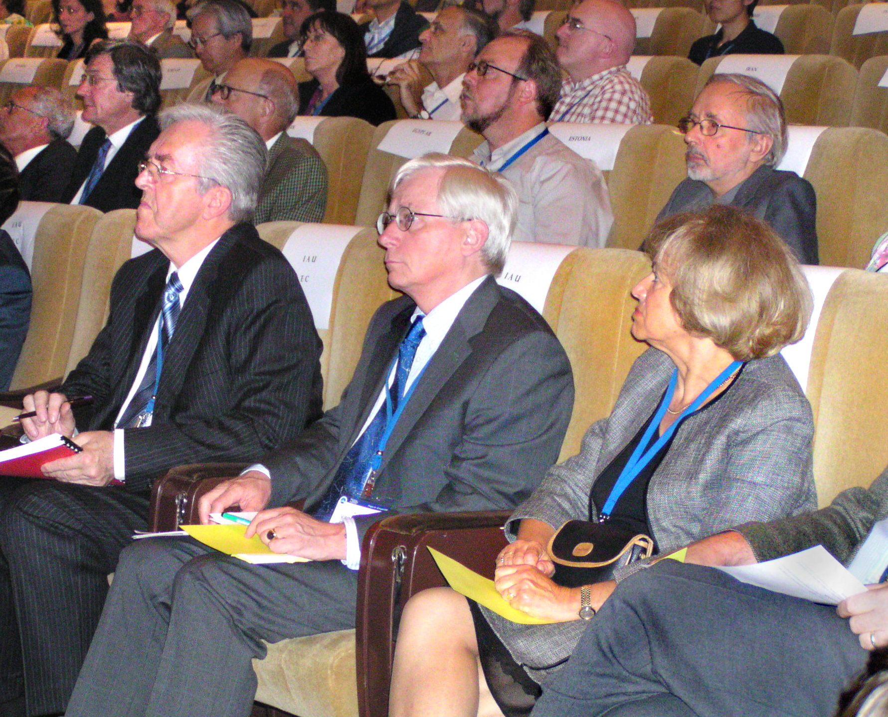 Closing ceremony of the IAU 26th General Assembly, Prague, with Catherine Cesarsky, new president of IAU